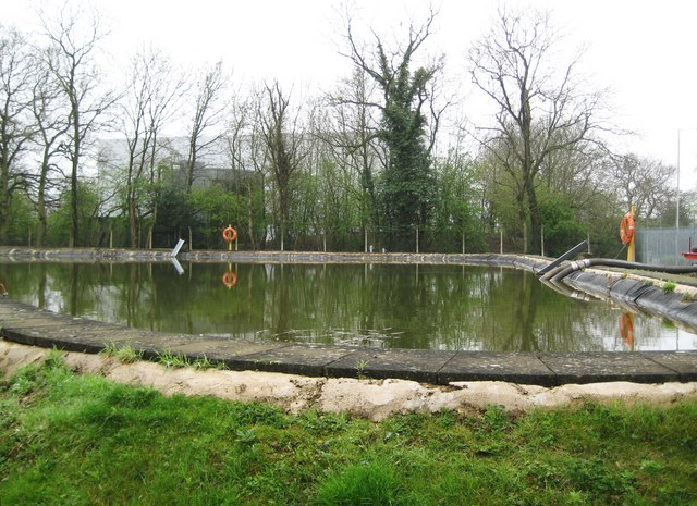 Buncefield: Emergency fire water pond (2) This is a close-up view of the pond in 1248725.